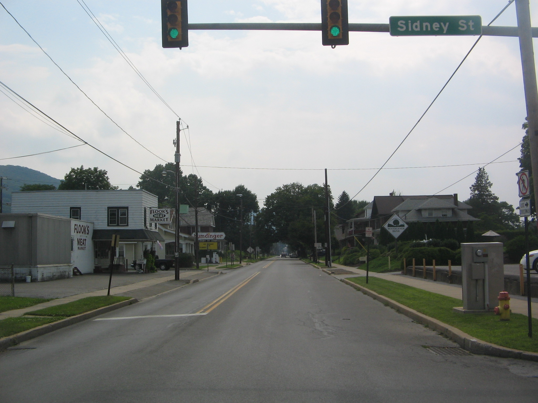 Looking west on West Southern Avenue in South Williamsport, Lycoming County, Pennsylvania in the United States.